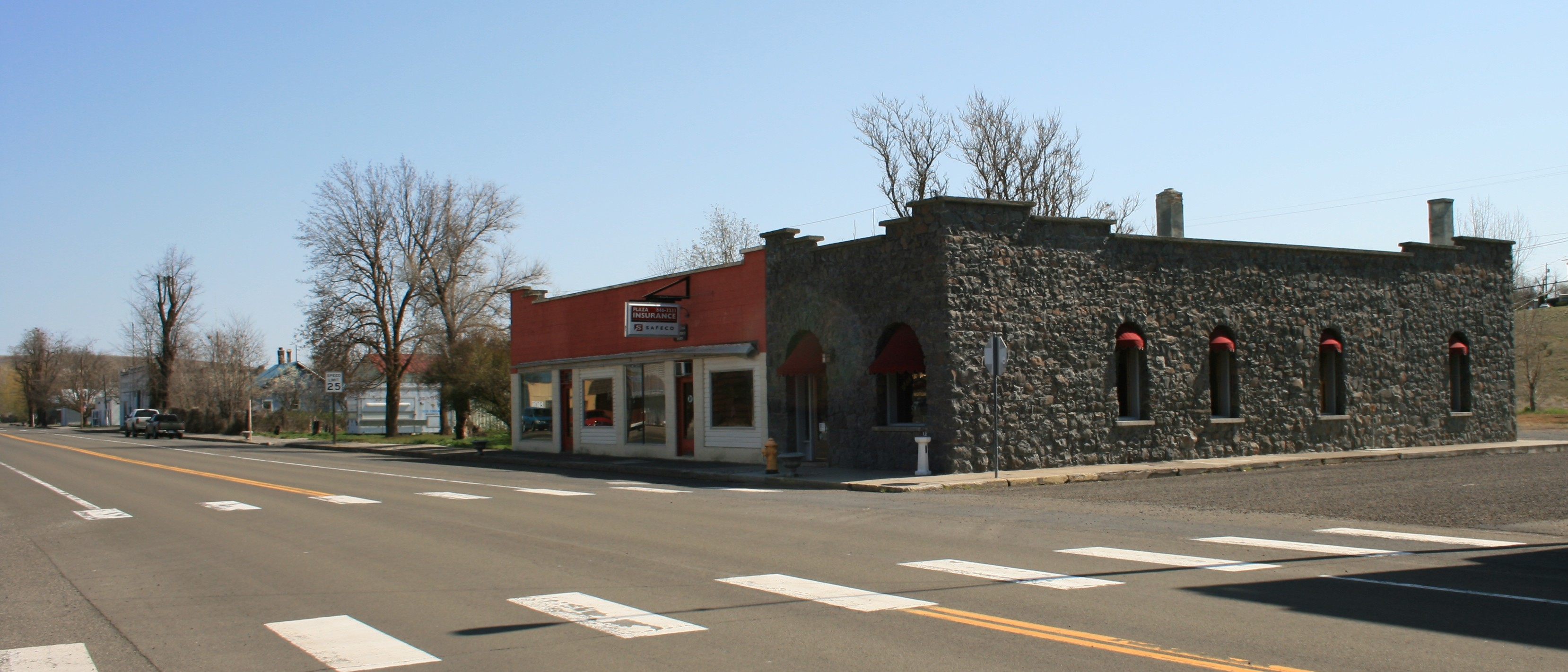 For use in the Washtucna, Washington article. Photo, taken & edited by uploader, is of Main Street. Category:Towns in the United States